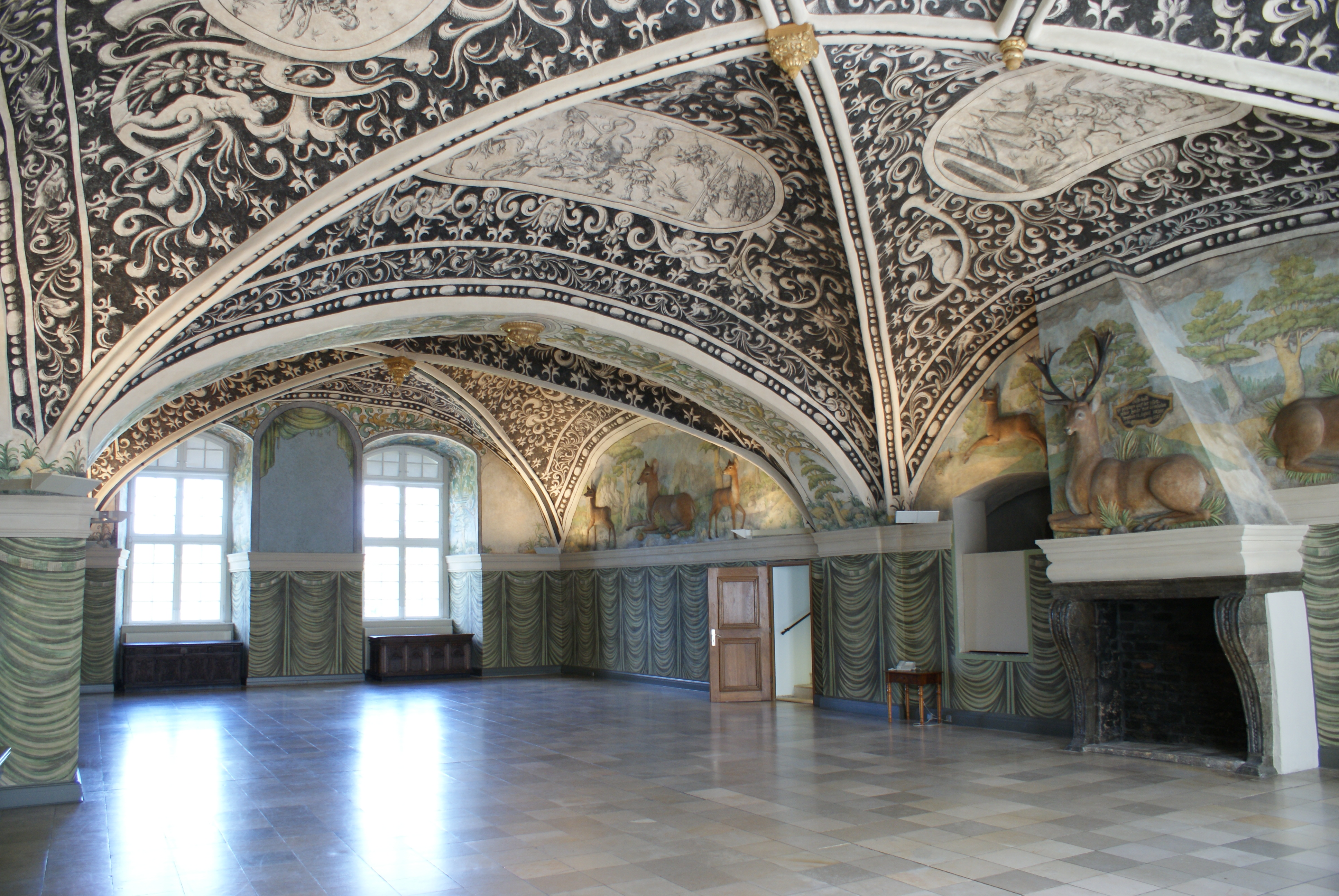 Gottorf Castle, the Hall of the Deers